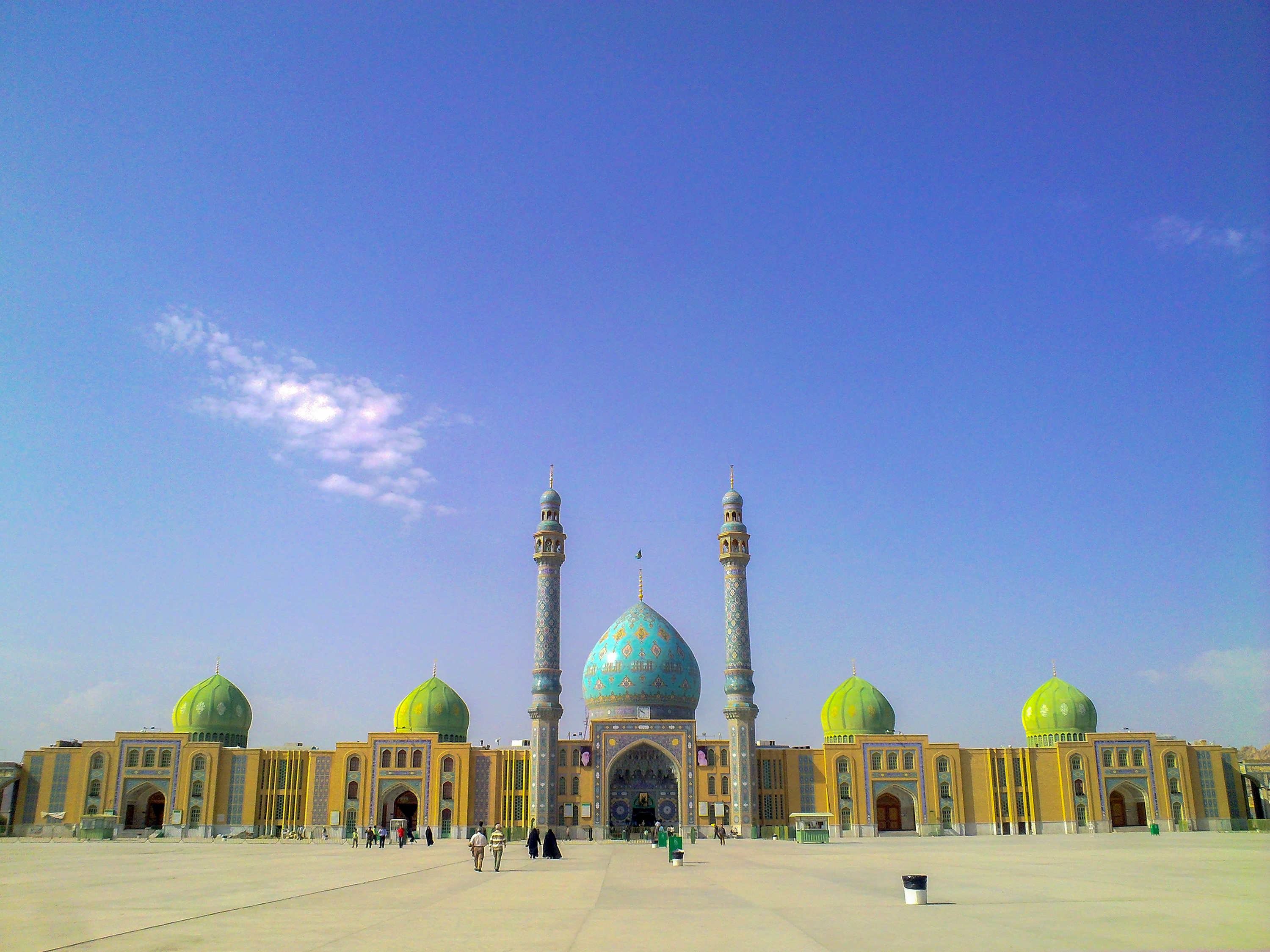 Jamkaran (Persian: Jamkarān; also Romanized as Jamkarān, Jamgarān, Jam-i-Karān, and Jam‘karān) is a village in Qanavat Rural District, in the Central District of Qom County, Qom Province, Iran. At the 2006 census, its population was 8,368, in 1,747 families.